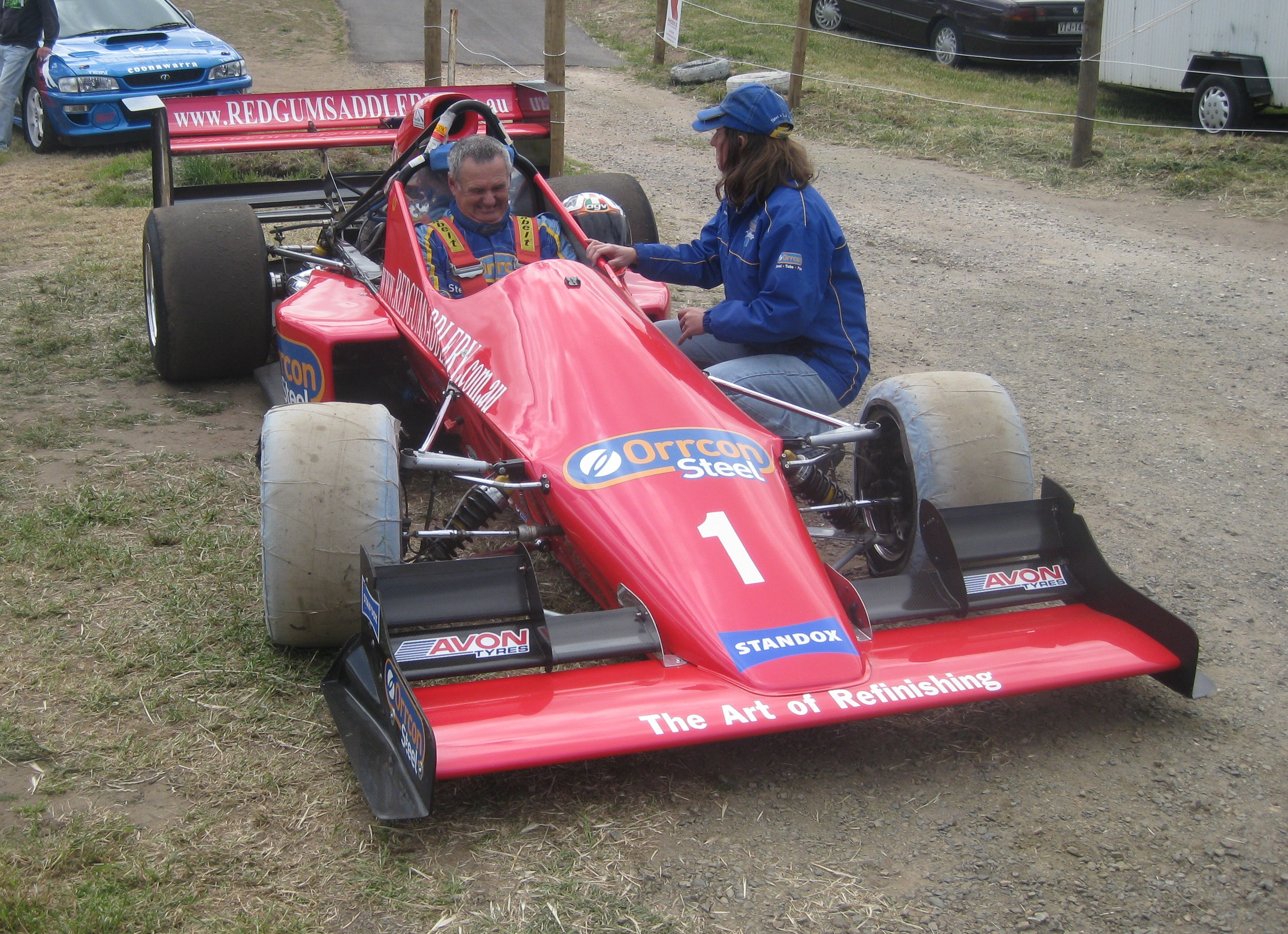 The SCV Volkswagen of Peter Gumley at Collingrove Hillclimb on 16 October 2011 for the 2011 South Australian Hillclimb Championship.